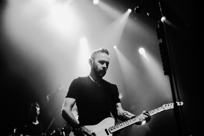 Joakim Berg live in 2012